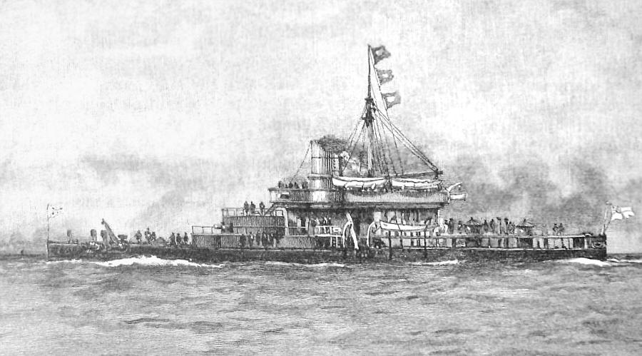 Illustration of British breastwork monitor HMS Glatton.